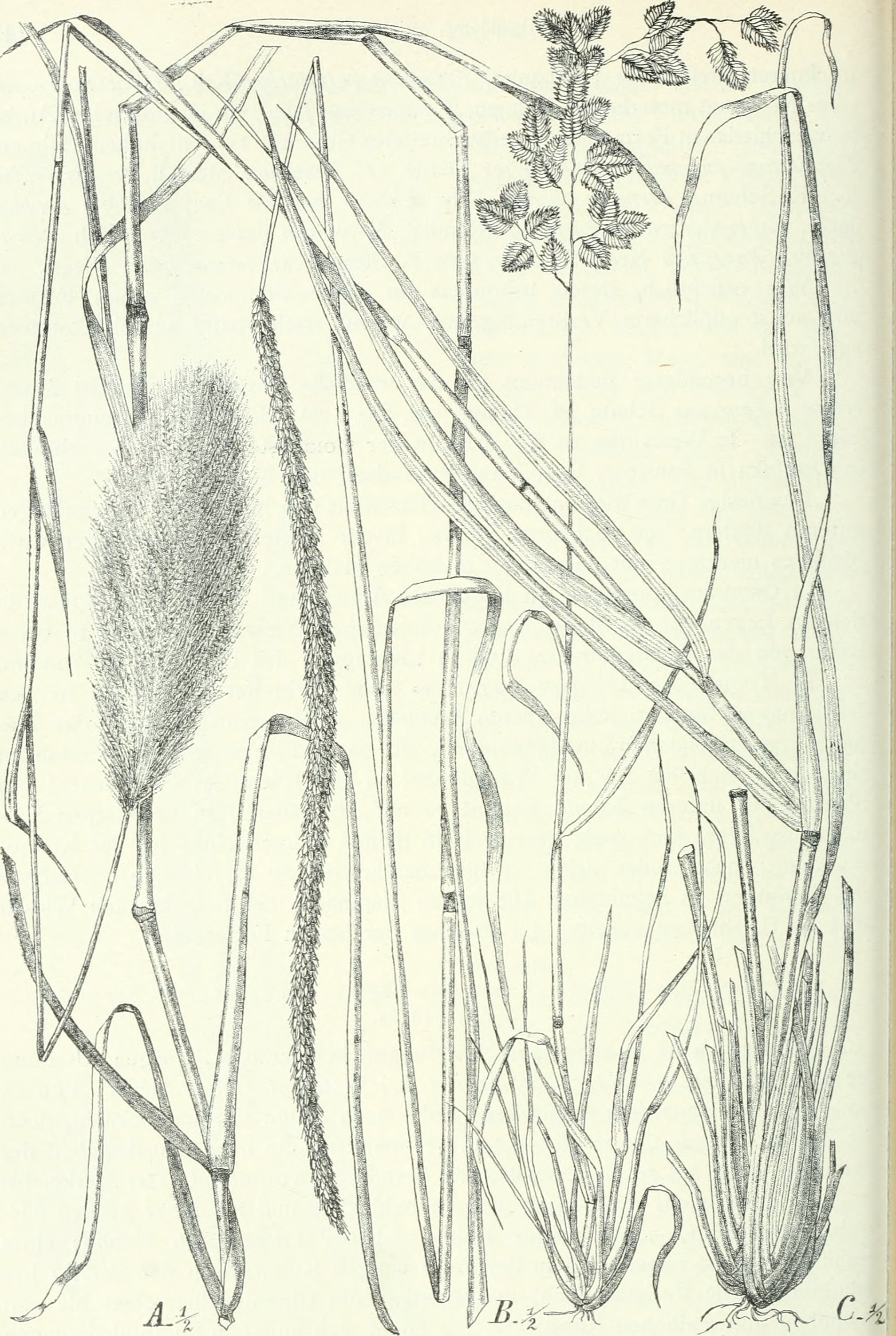 Title: Die Pflanzenwelt Afrikas, insbesondere seiner tropischen Gebiete : Grundzge der Pflanzenverbreitung im Afrika und die Charakterpflanzen Afrikas Year: 1910 (1910s) Authors: Engler, Adolf, 1844-1930 Subjects: Botany Publisher: Leipzig : W. Engelman Text Appearing Before Image: ' Text Appearing After Image: Fig. 113. A Setaria aurea Höchst. Gras feuchter Wiesen und Steppen. B Eragrostis superba Wawra et Peyr. C Chloris myriostachya Höchst. Häufige Steppengräser.